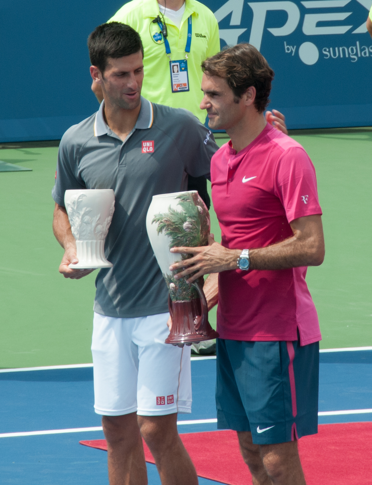 Cincinnati-Tennis-2015-ATP-WTA-150